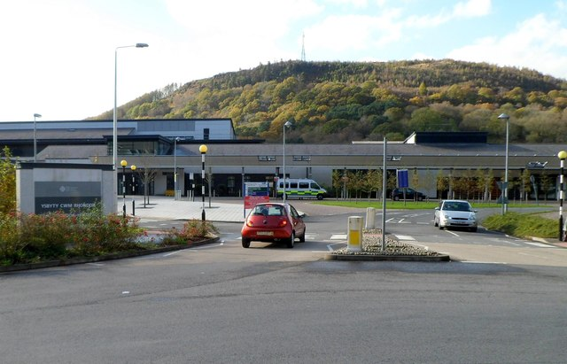 Entrance to Ysbyty Cwm Rhondda hospital, Llwynypia